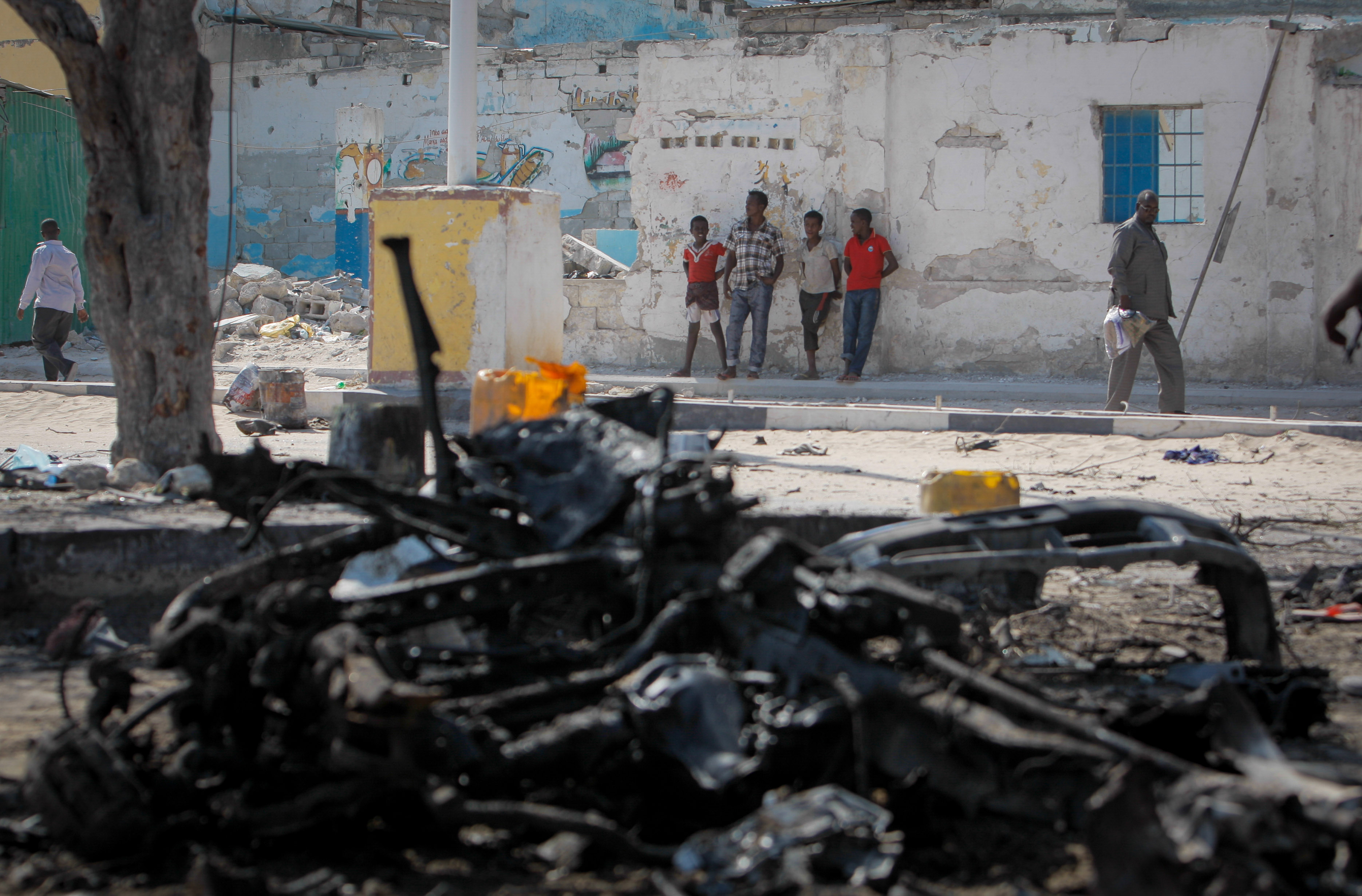 Young Somalis look on near the wreckage of a car bomb after a double suicide attack by Al-Qaeda-affiliated extremist group Al Shabaab killed 18 people and injured dozens more at a popular Mogadishu restaurant in the Somali capital 07 September 2013. Speaking at the opening of a National Conference on Tackling Extremism in Somalia in the capital today, Presdient Hassan Sheikh Mohamud said that extremists no longer only attack government officials and foreign missions, but they also target traditional elders, religious scholars and innocent people gathered in public areas, restaurants and markets, and that the fight against extremism in Somalia is not just for the government or religious leaders to tackle, but for all Somali people to defeat. AU-UN IST PHOTO / STUART PRICE.